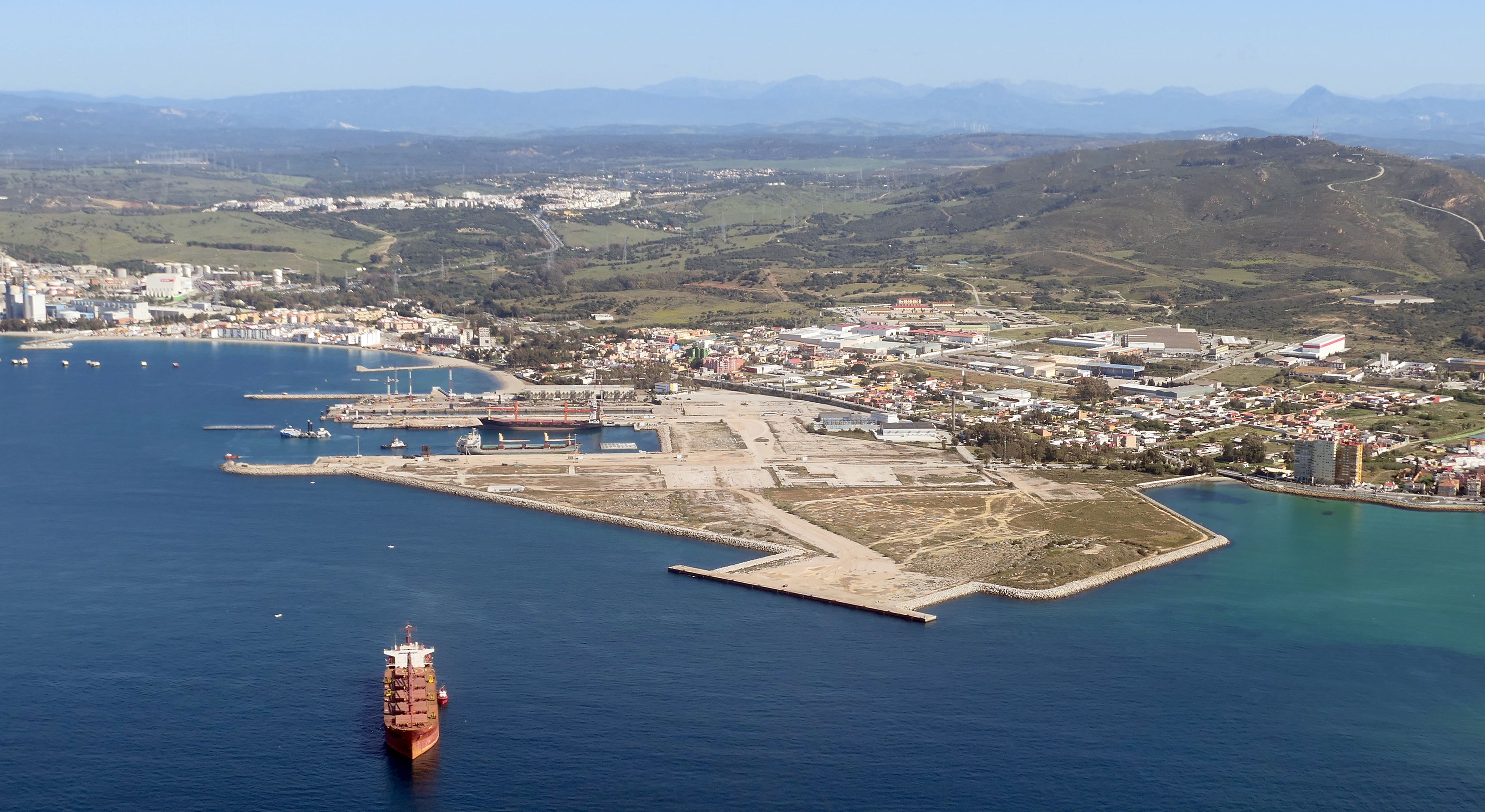 An aerial photo of the dockyard near Campamento, a town in the south of Spain, near Gibraltar.